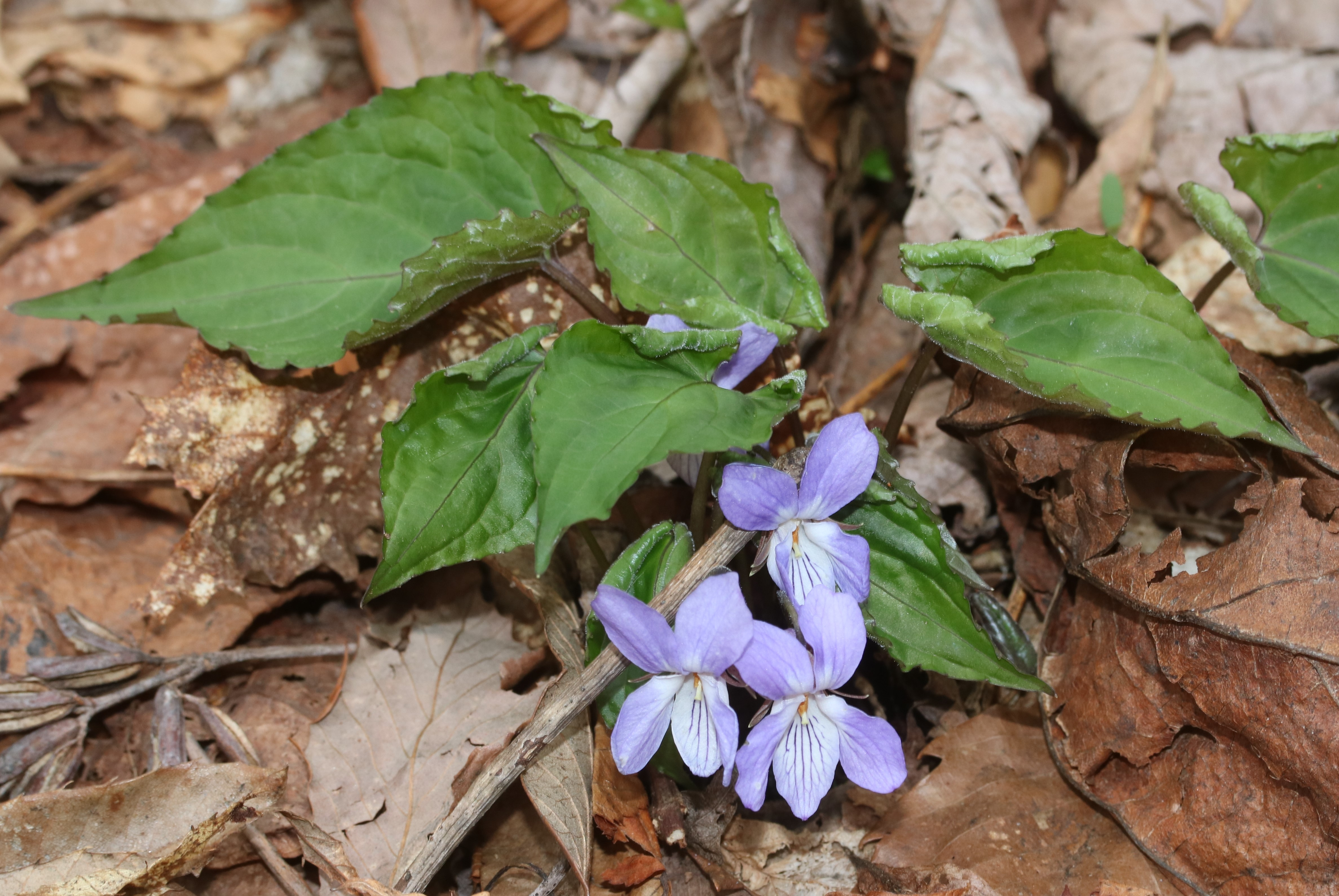 Viola vaginata in Mount Ibuki, Maibara, Shiga prefecture, Japan. Canon EOS Kiss X8i